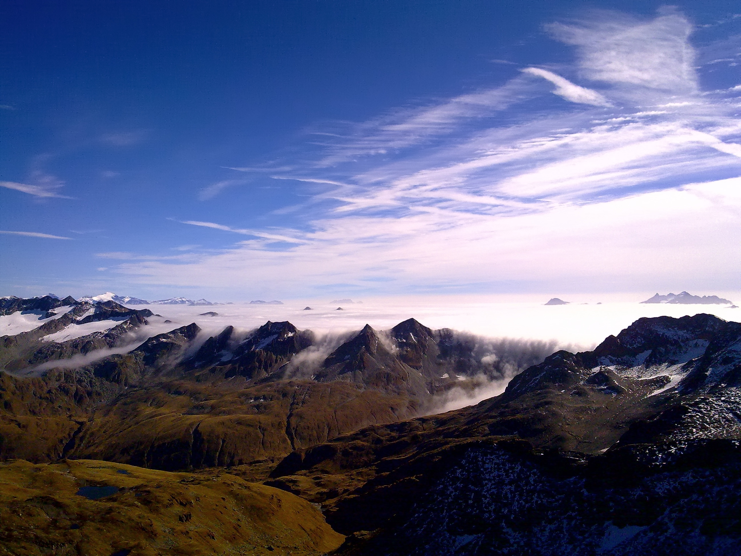 View from the summit of the Gemsstock. The clouds cover the southern canton of Ticino.